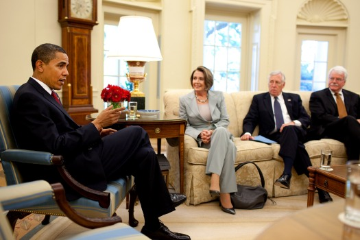 President Barack Obama meets with Speaker Nancy Pelosi, House Majority Whip Steny Hoyer, and House Education and Labor Committee Chair Rep. George Miller, in the Oval Office Wednesday, May 13, 2009. House Energy and Commerce Committee Chair Rep. Henry Waxman, and House Ways and Means Committee Chair Rep. Charlie Rangel also attended the meeting but are not in the photo.